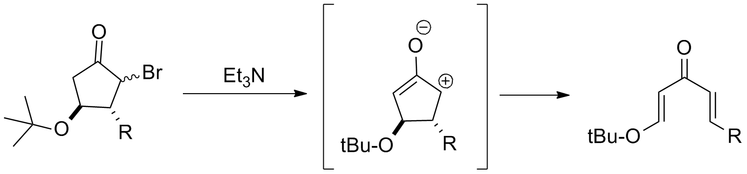 Retronazarov